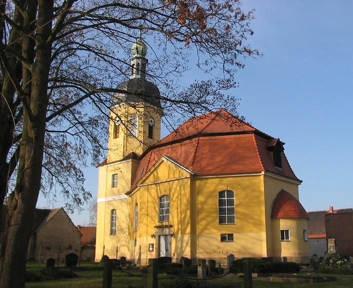 St. Boniface Church in Hundeluft with Rotunda, built in 1746. The village Hundeluft is a municipality in the nature park Fläming in the district Wittenberg, state Saxony-Anhalt, Germany.